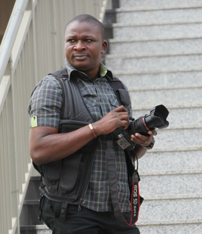 Photo of Lukman Olaonipekun